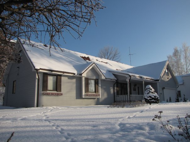 American Home in Vladimir in Summe